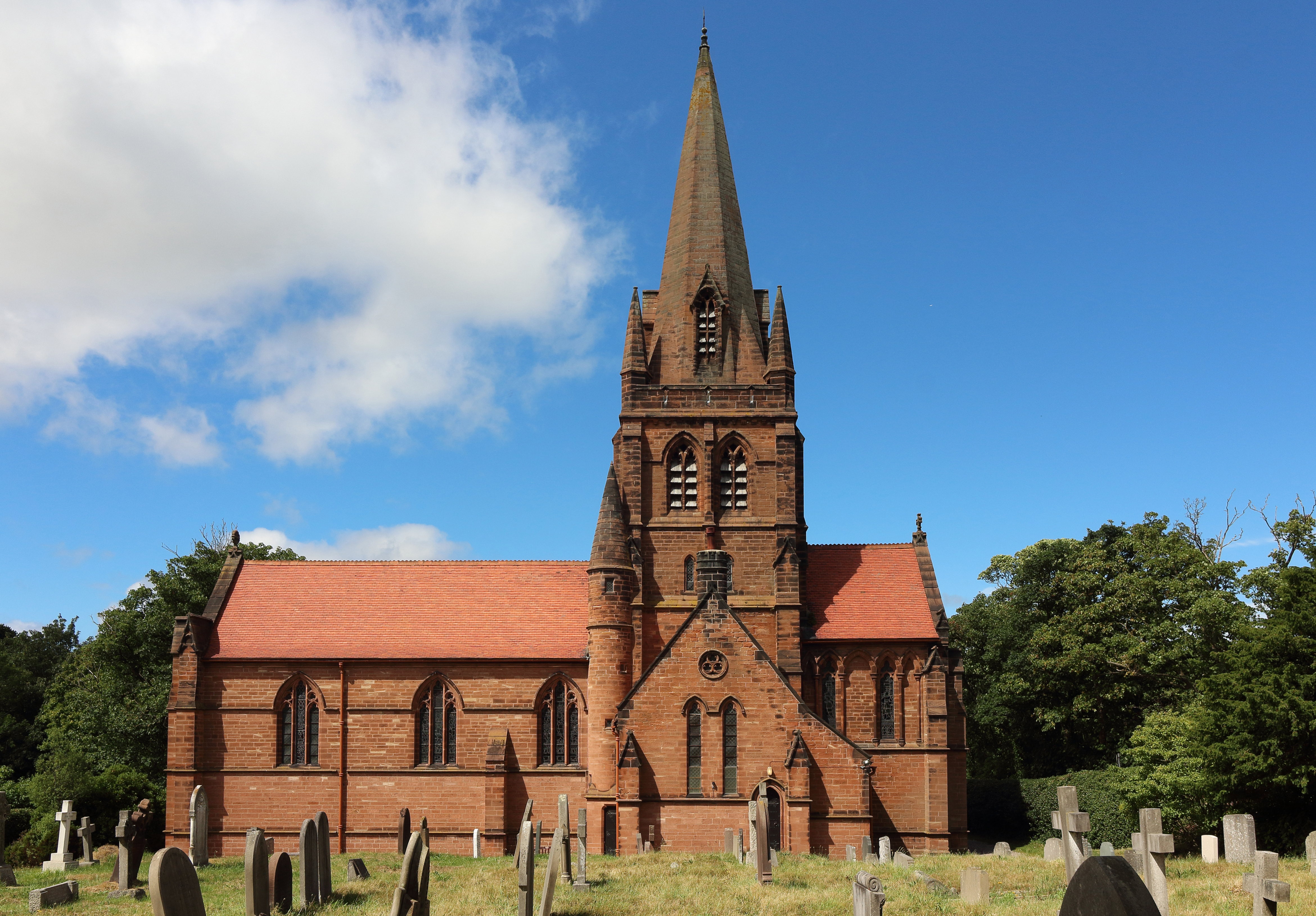 Grade II* listed church of St Bartholomew, Thurstaston. Southwest side of the church from the churchyard